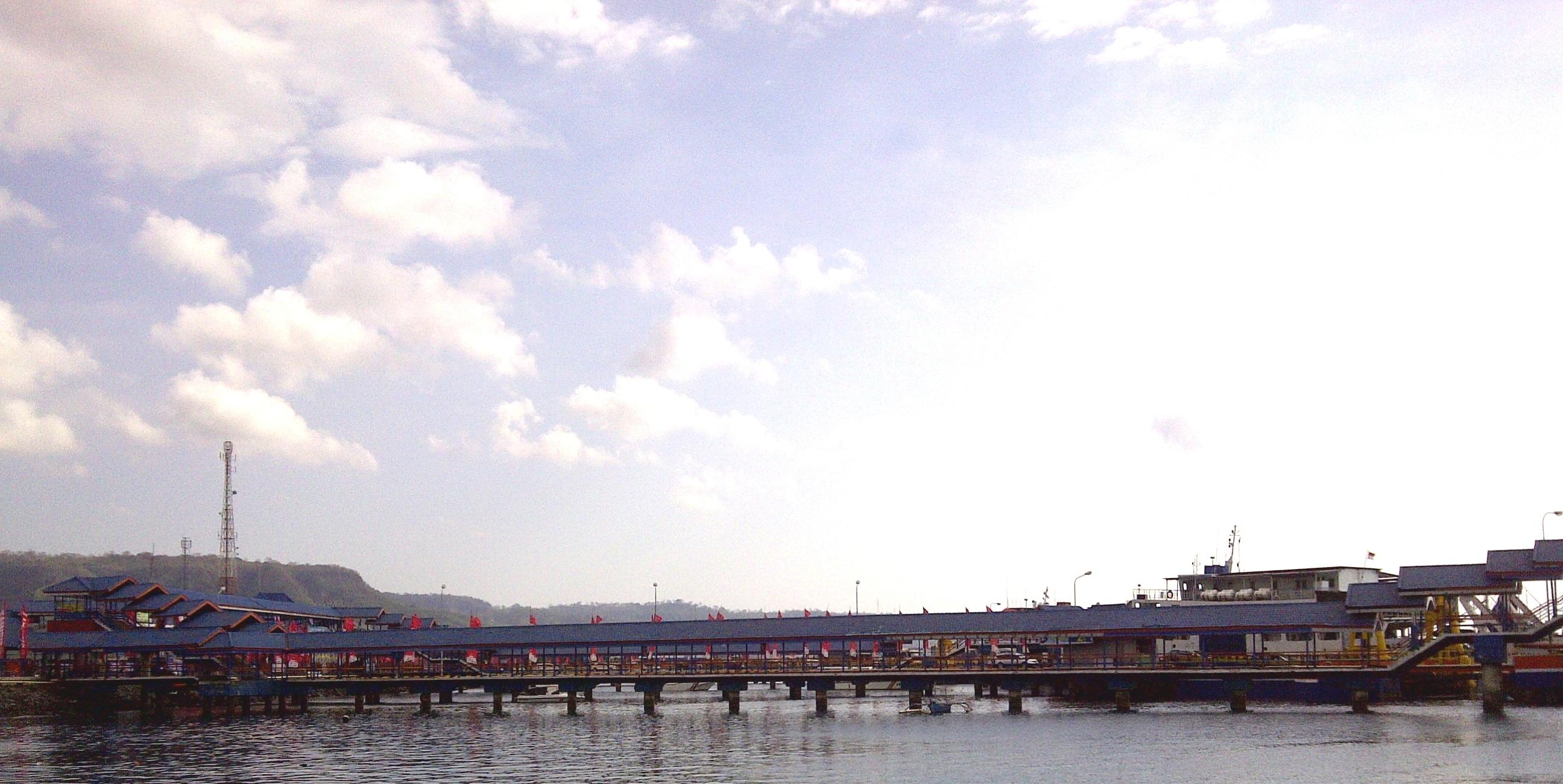 Ketapang Port, Banyuwangi, Indonesia. The port is connecting Java and Bali islands.